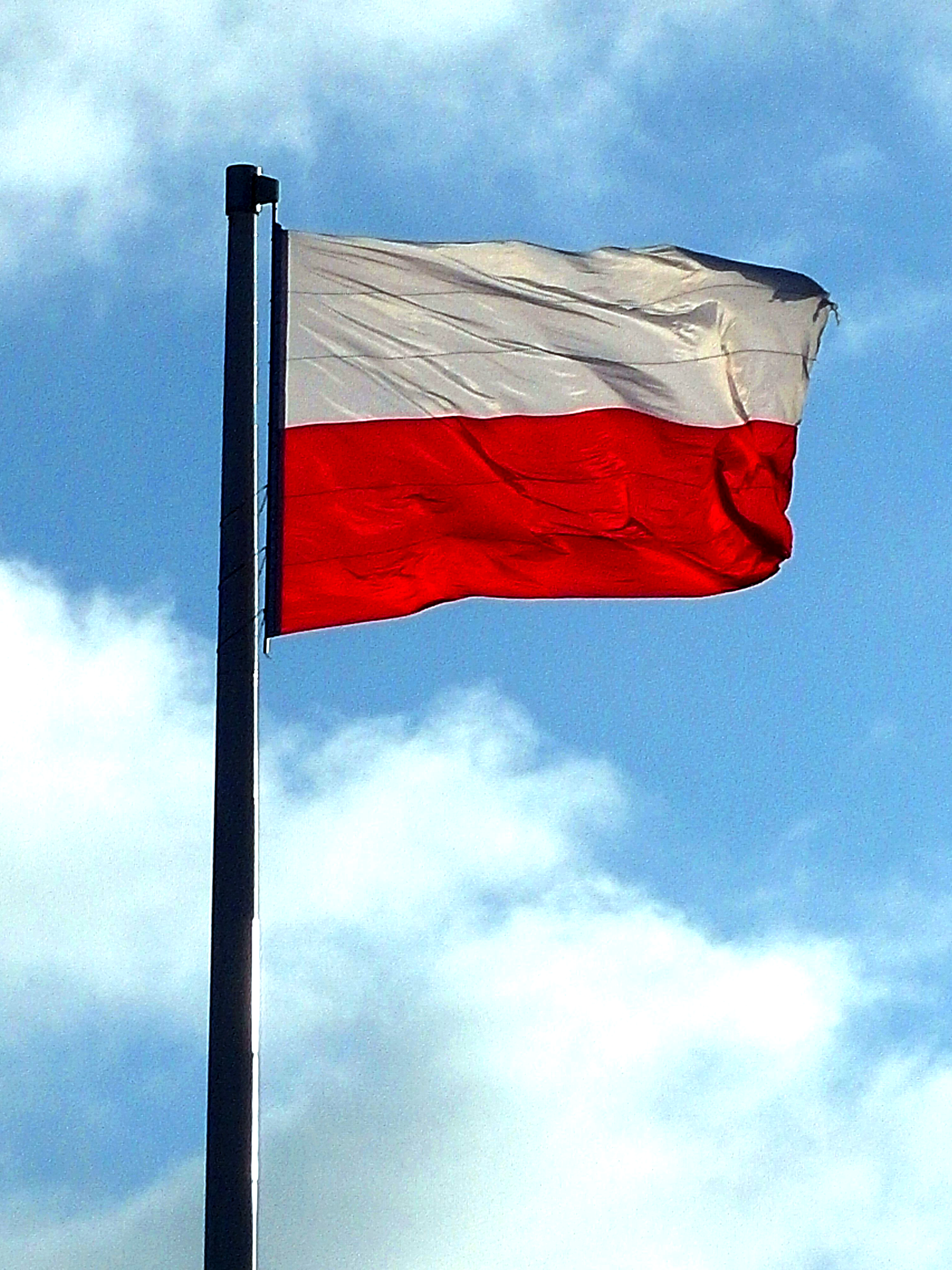 Flag of Poland at Arkadia in Warsaw 2015